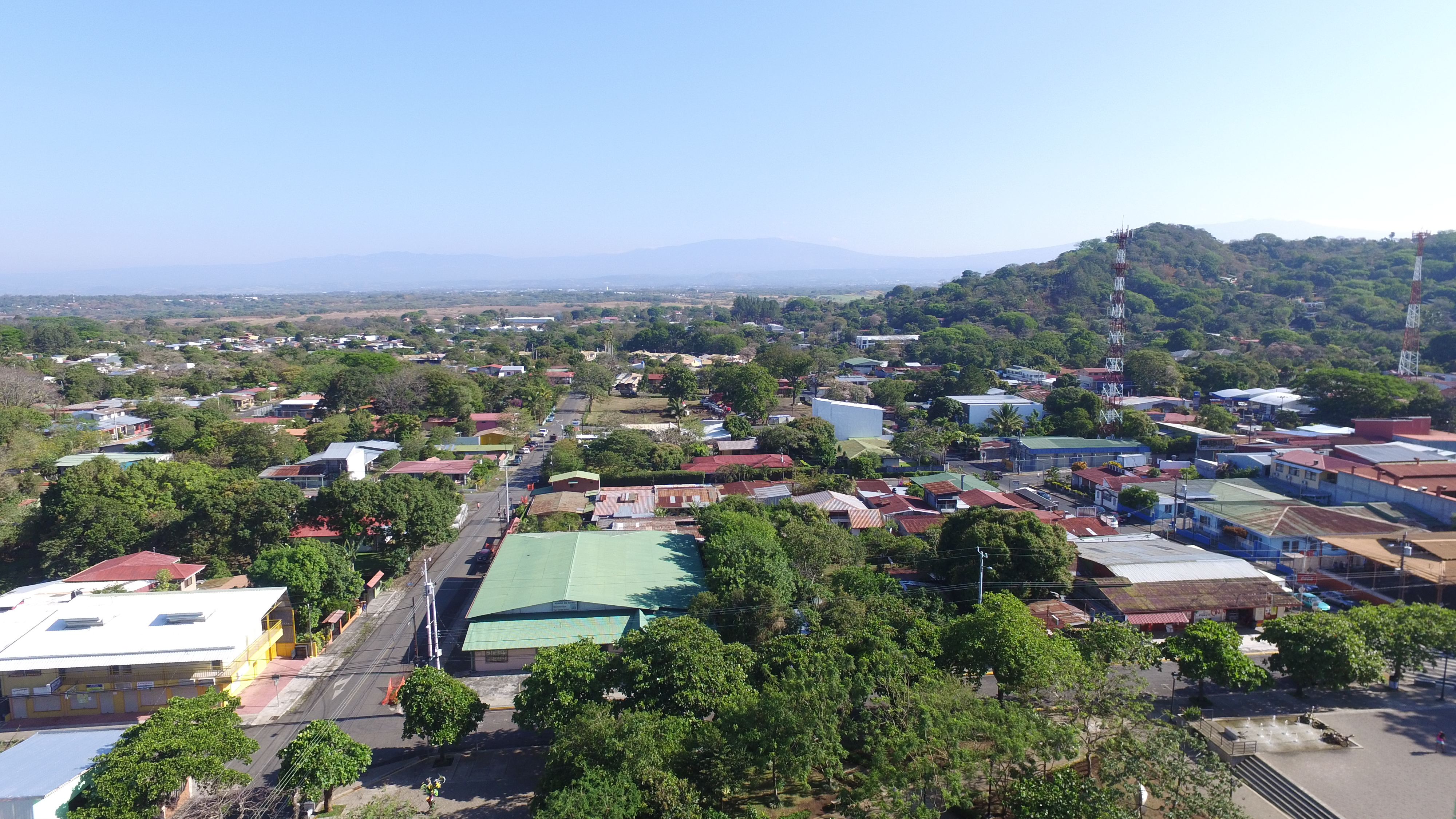 Aerial photo of Ciudad Colon, Costa Rica.